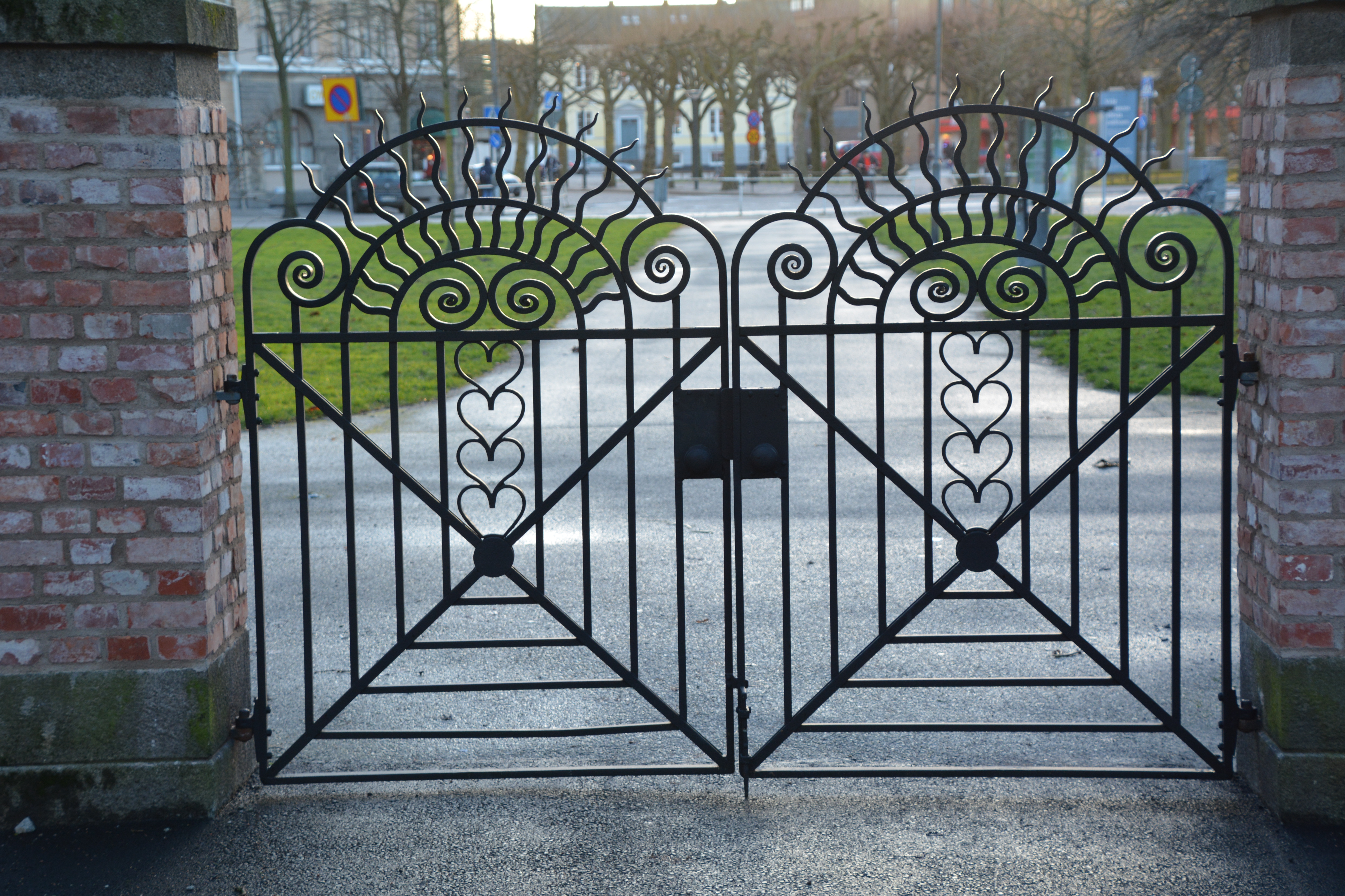 Lindebergska skolan I Lund